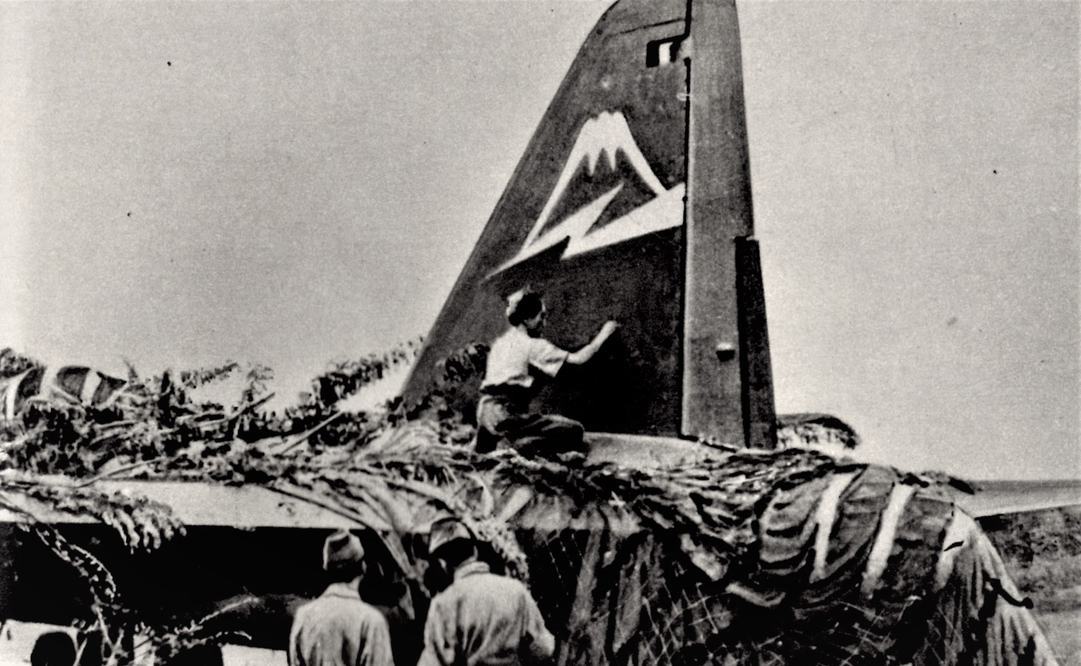 Mt. Fuji of the tail wing mark of Ki-67 Hiryu